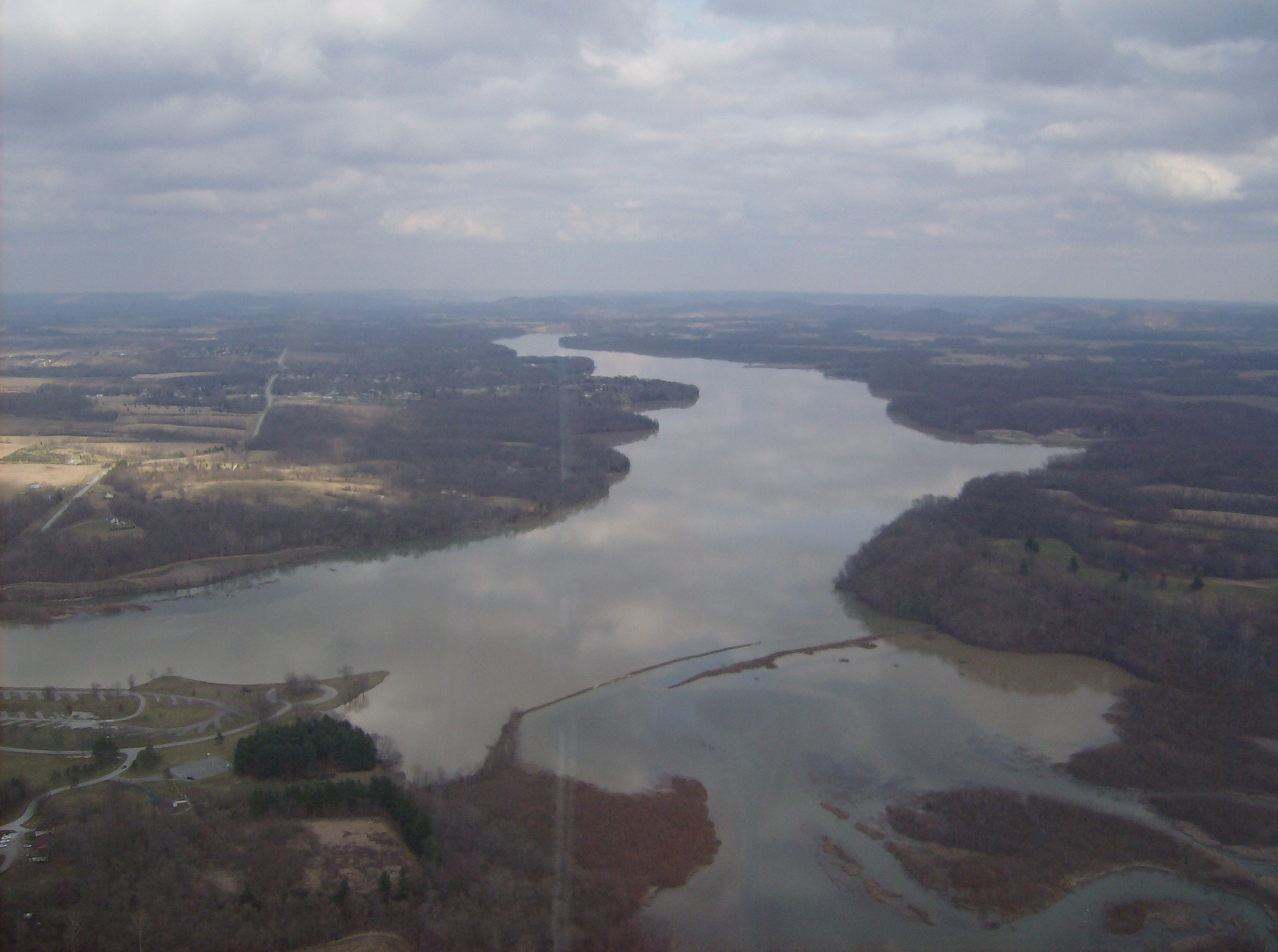 View from the western end of Rocky Fork Lake in Rocky Fork State Park, divided between Marshall and Paint townships in east-central Highland County, Ohio, United States. Picture taken from a Diamond Eclipse light airplane at an altitude of 2,000 feet MSL and a bearing of approximately 49º.